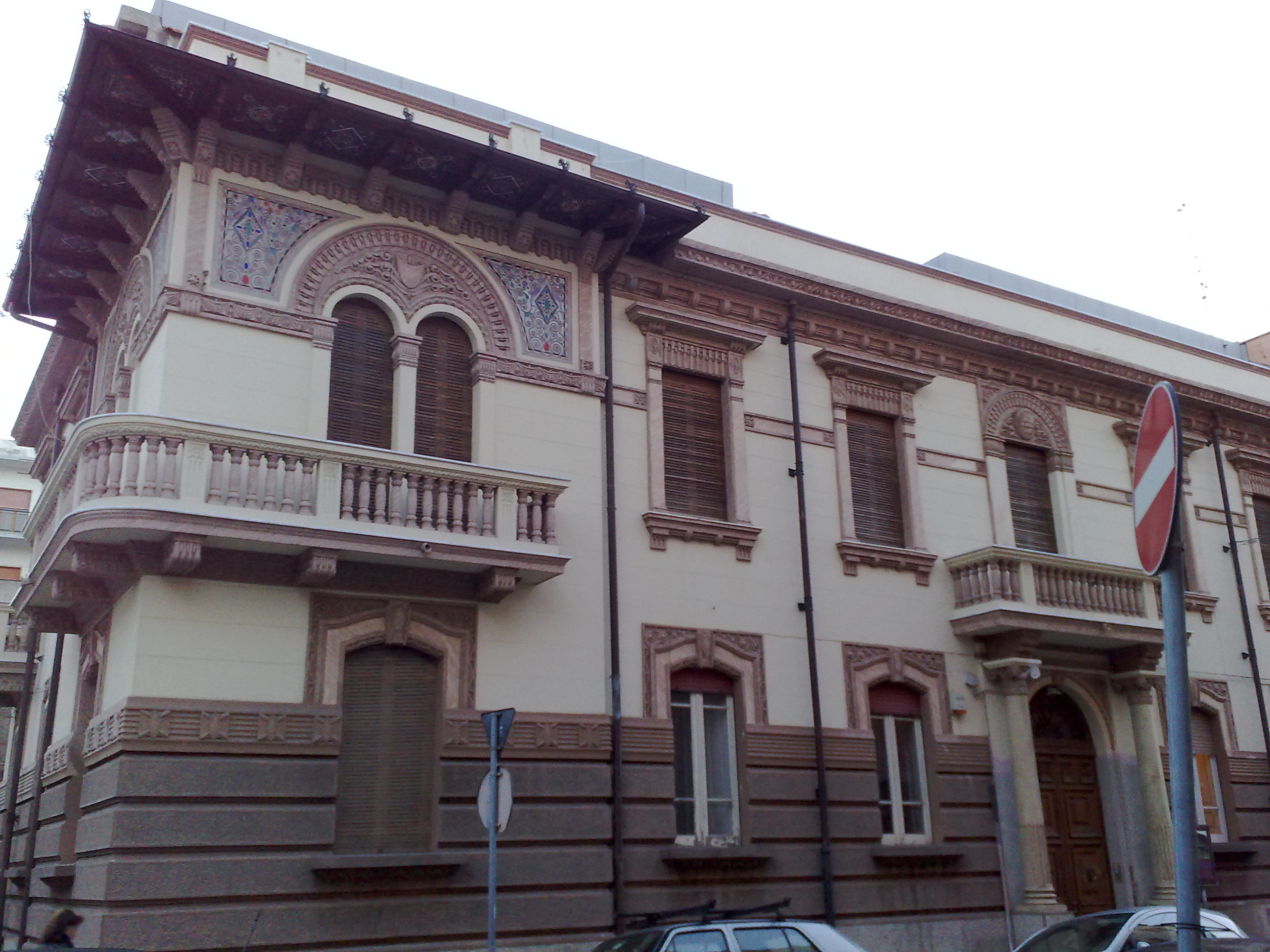 Miccoli Bosurgi Palace